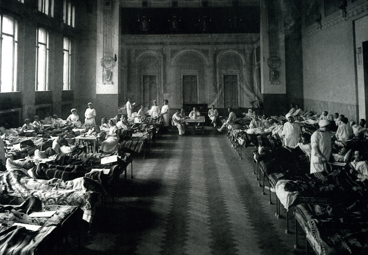 World War I in Russia. A military hospital set up in the ballroom of the Merchants Club, Moscow (now Lenkom Theatre).